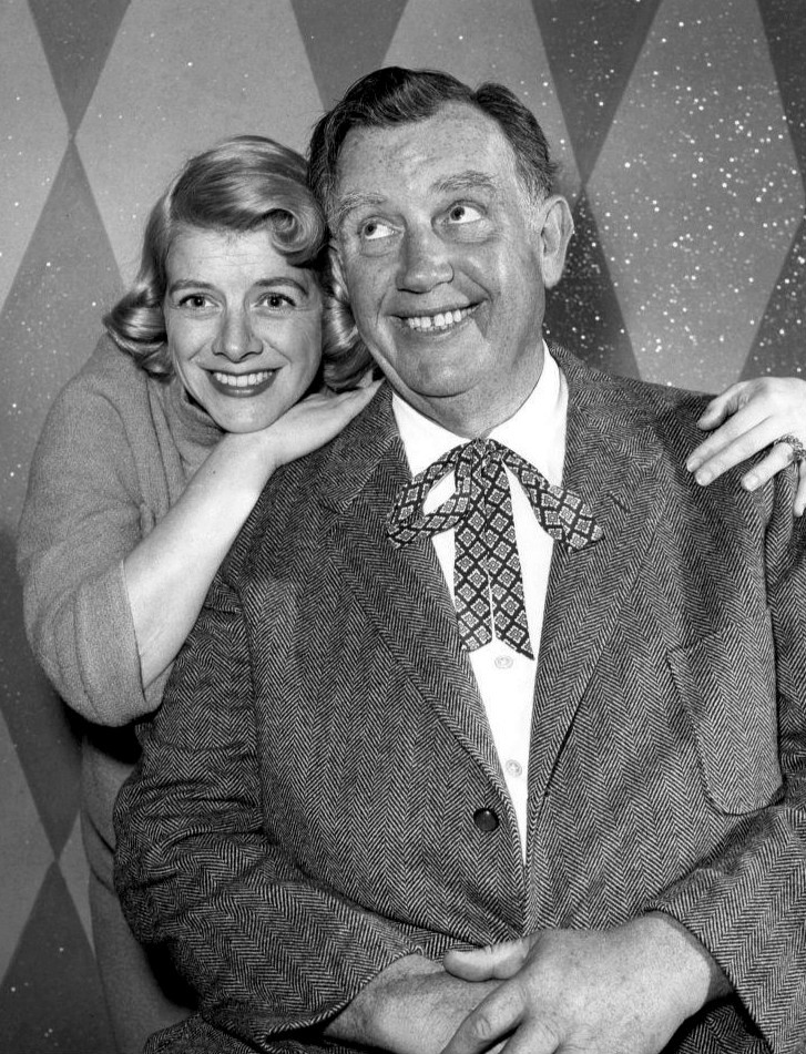 Photo of Andy Devine. The woman pictured with him appears to be Rosemary Clooney.